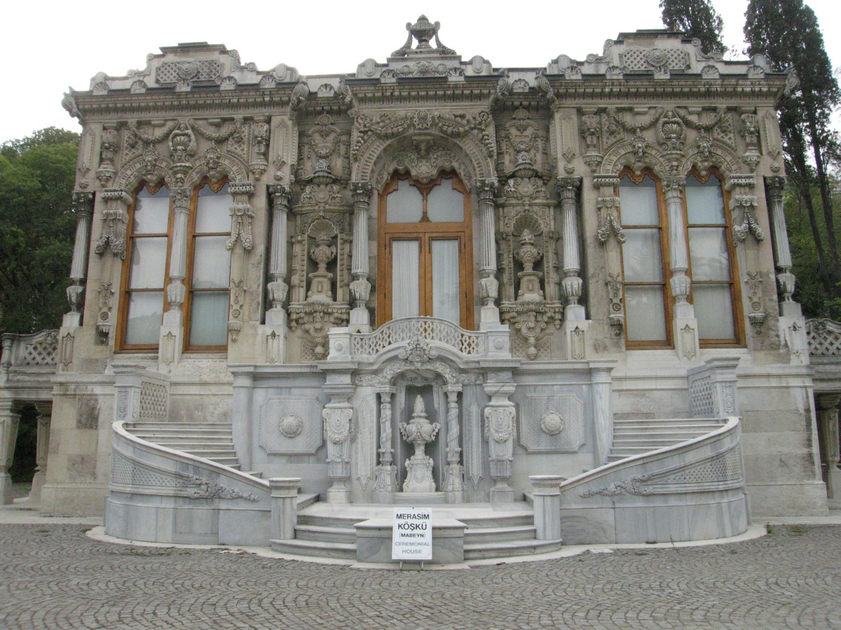 Ceremonial House of Ihlamur Palace in Istanbul, Turkey